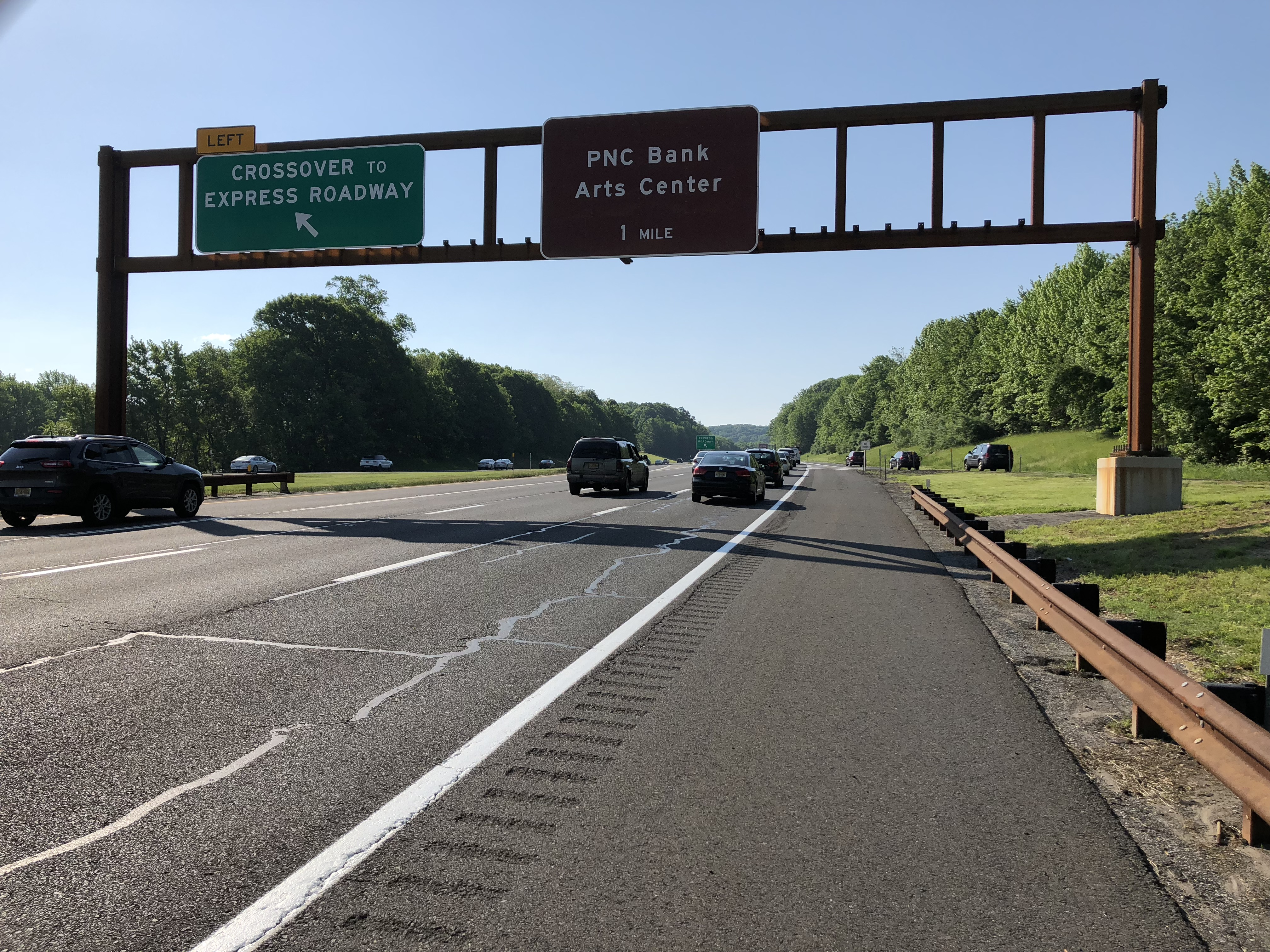 View south along New Jersey State Route 444 (Garden State Parkway) at a crossover to the express lanes in Holmdel Township, Monmouth County, New Jersey